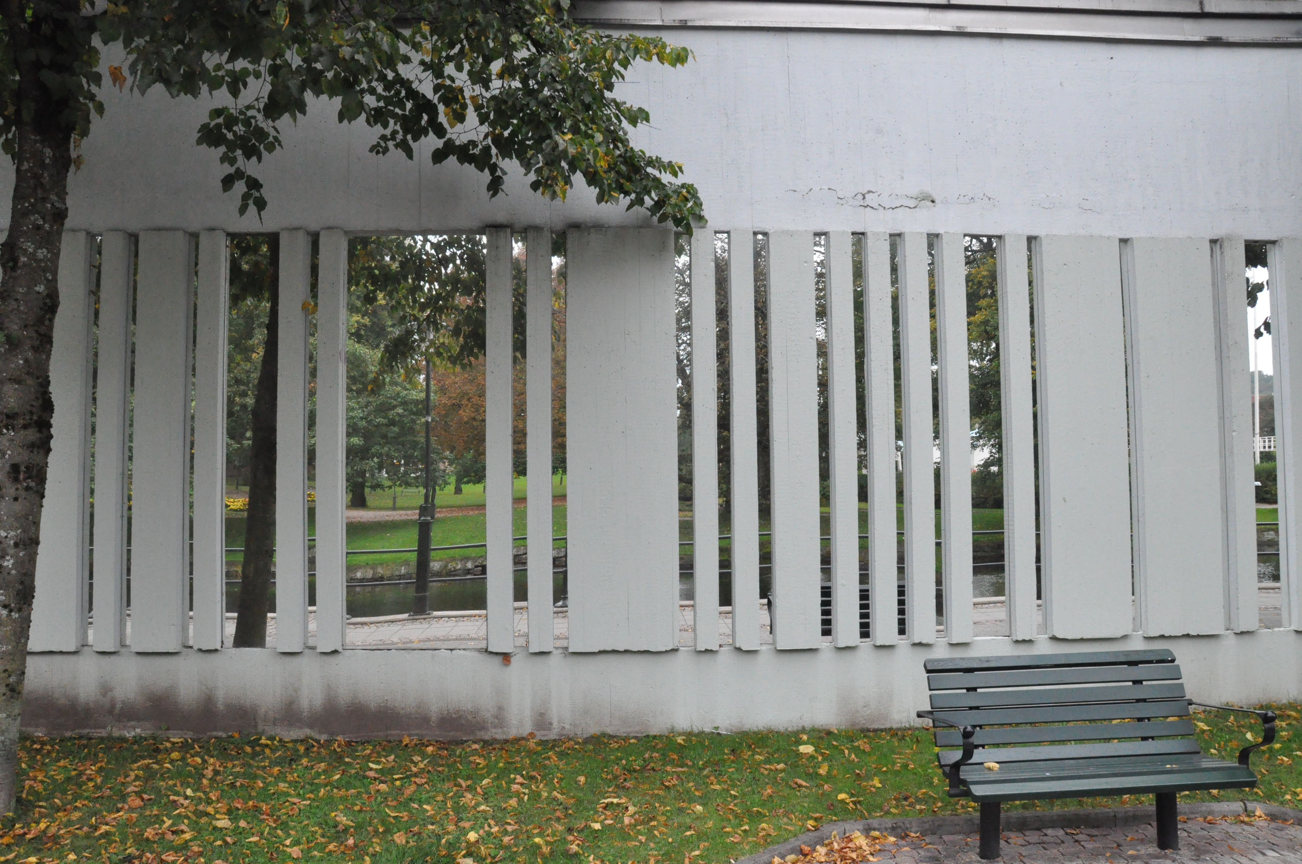 Streckkod Borås 2011 by Pål Svensson, Borås, 2011